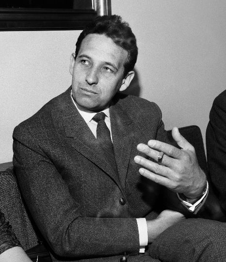 Photograph of the Polish film director Andrzej Wajda during his visit to Finland.